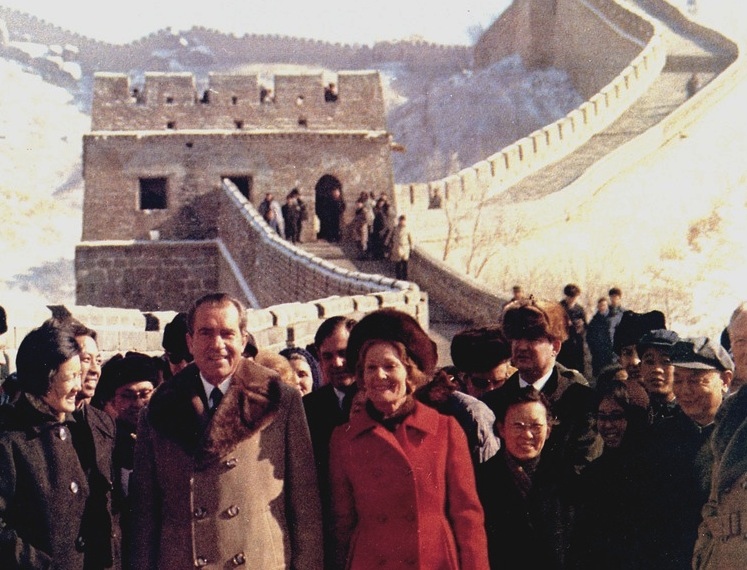 Cropped version of File:President and Mrs. Nixon visit the Great Wall of China and the Ming tombs - NARA - 194421.tif.